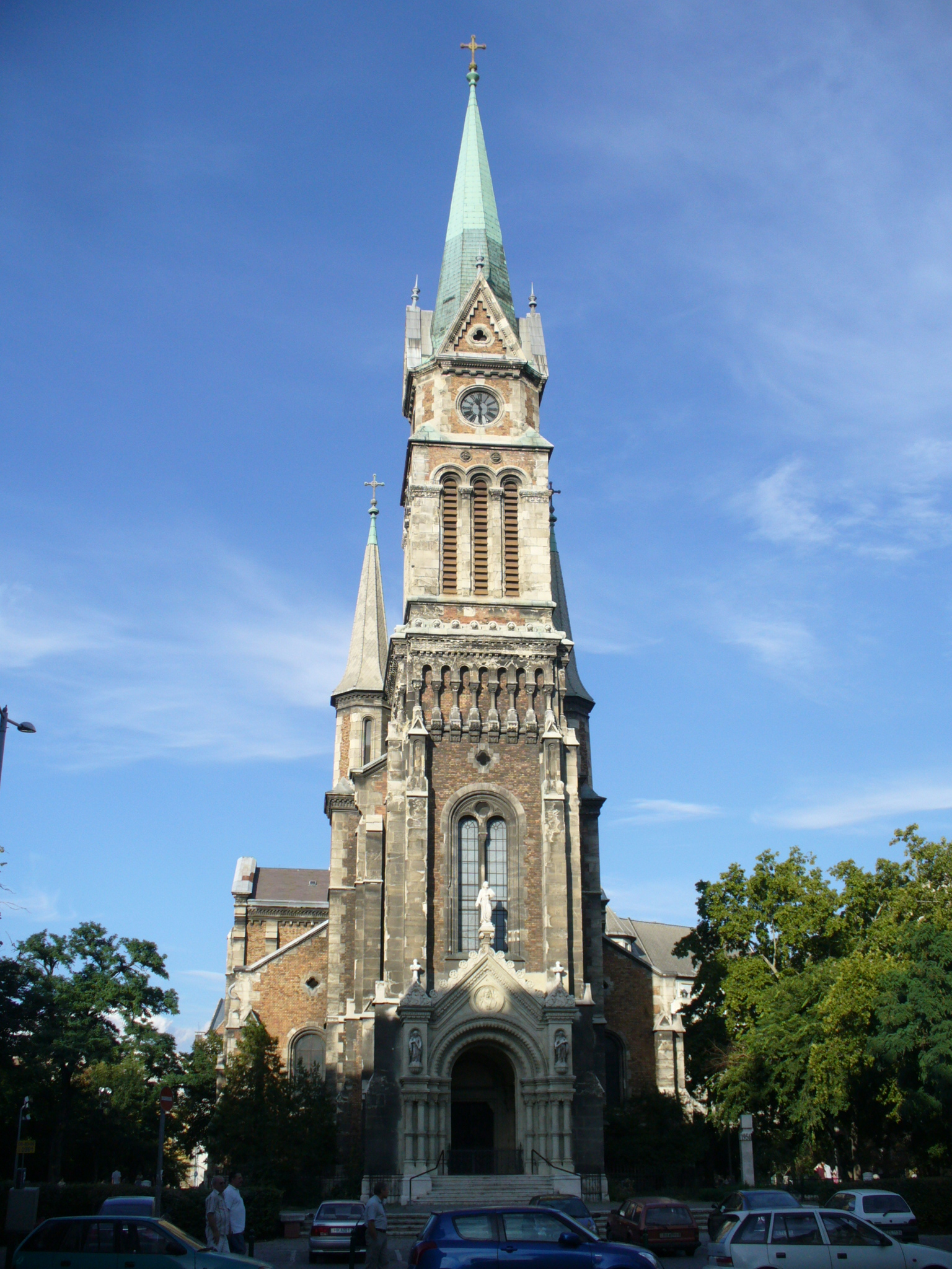 Parish church of Ferencváros (Budapest), Bakáts square